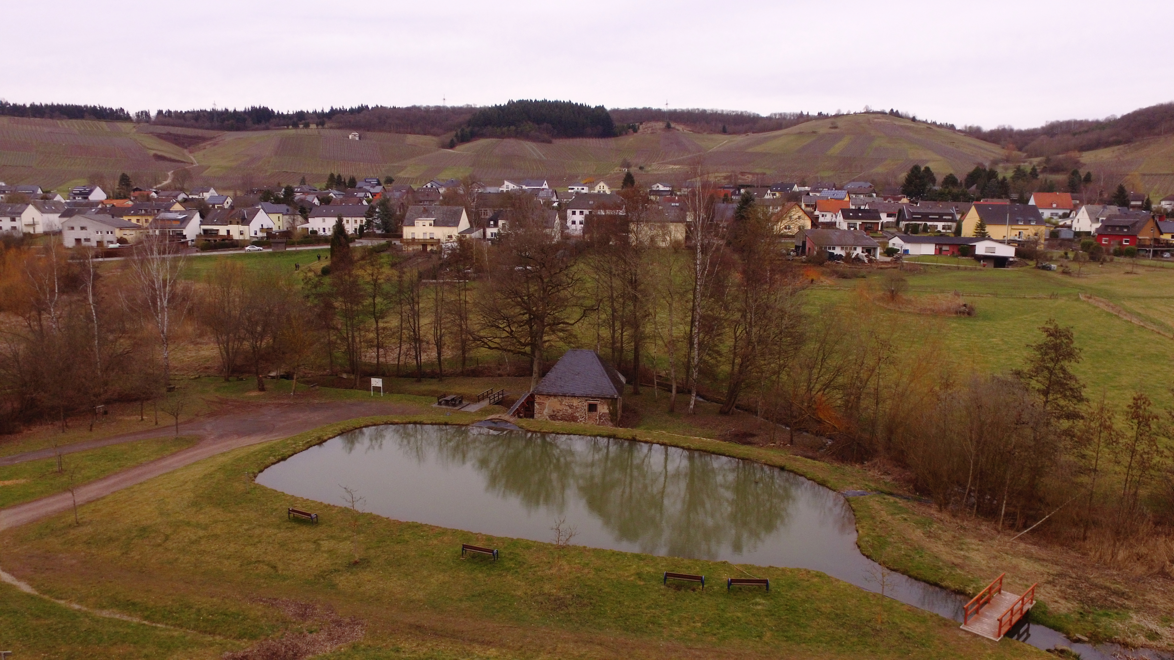 Oil mill Konz-Niedermennig (Germany)